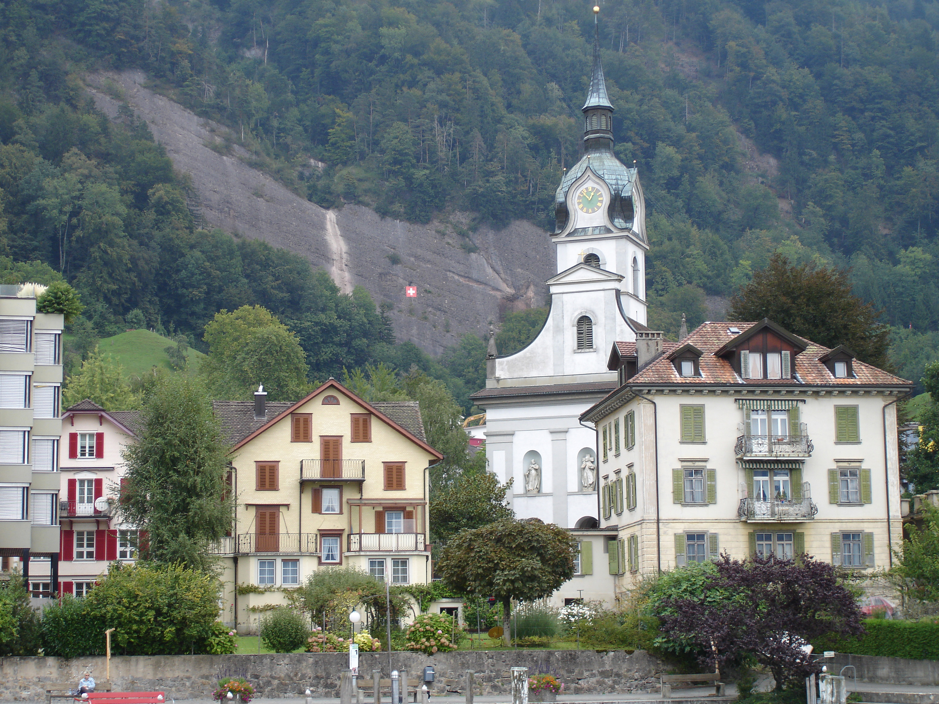 Vitznau - seen from the lake